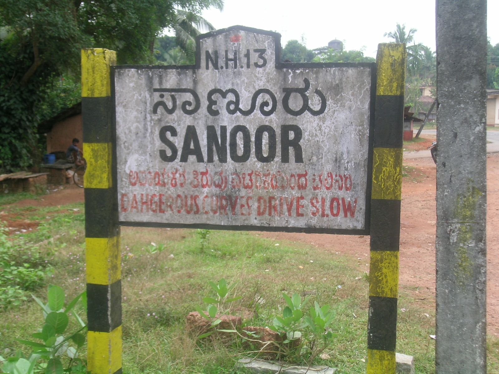 State High-way Sign-board at Sanoor. This road has been renumbered as NH-169